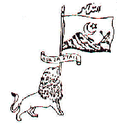 Coat of arms of Hunza